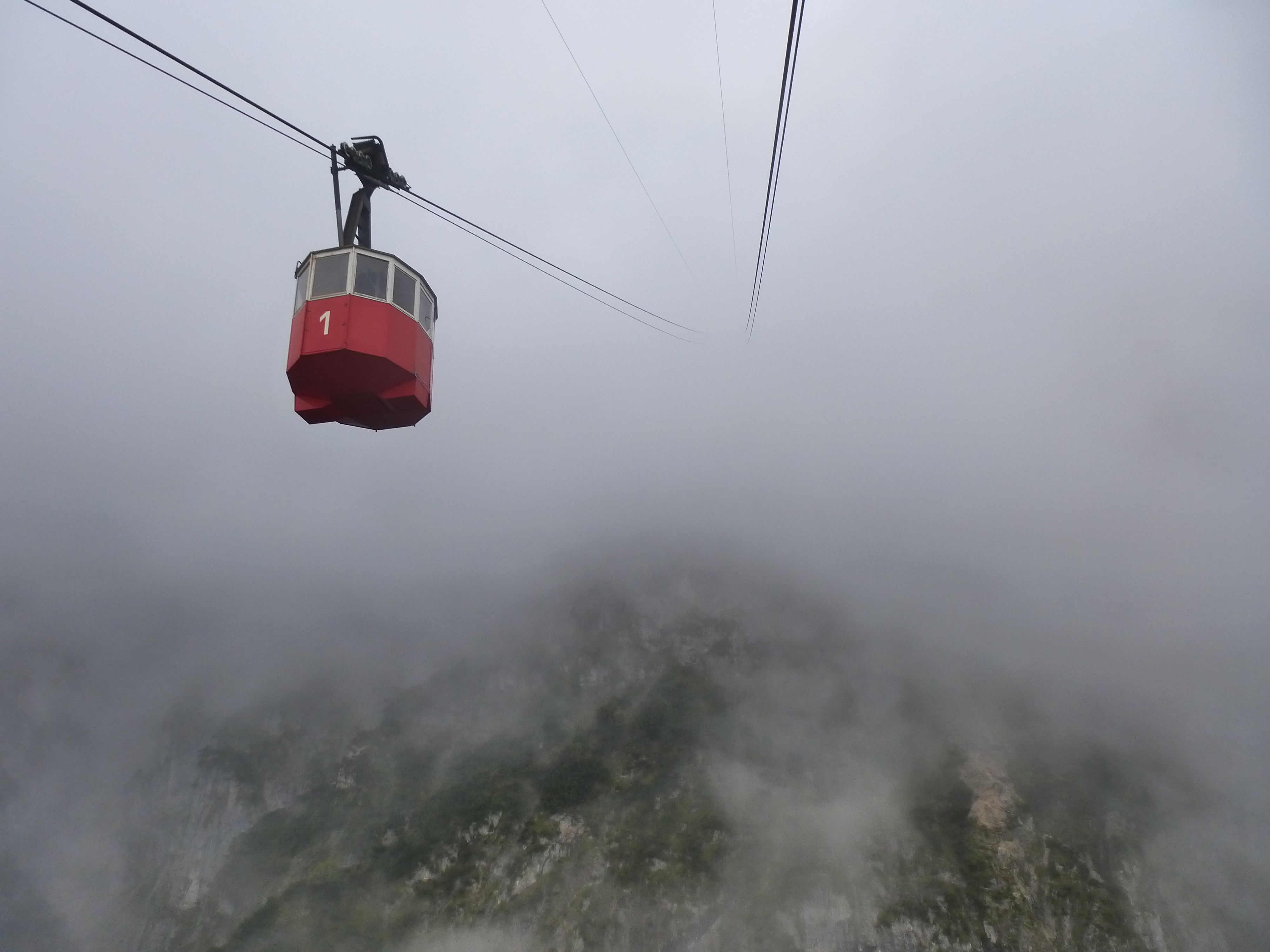 The Predigtstuhl Cable Car (German: Predigtstuhlbahn) from Bad Reichenhall up to the Predigtstuhl has been in operation since 1928 and is the oldest large-cabin cable car in world.